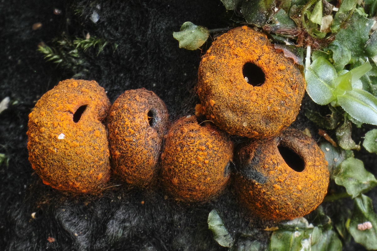 Plectania melastoma, Czech Republic